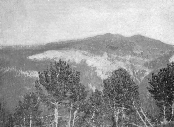 Yogo Peak seen from Belt Creek Divide, Montana. Showing crown of bowider and "hoodoo" crags of shonkinite.